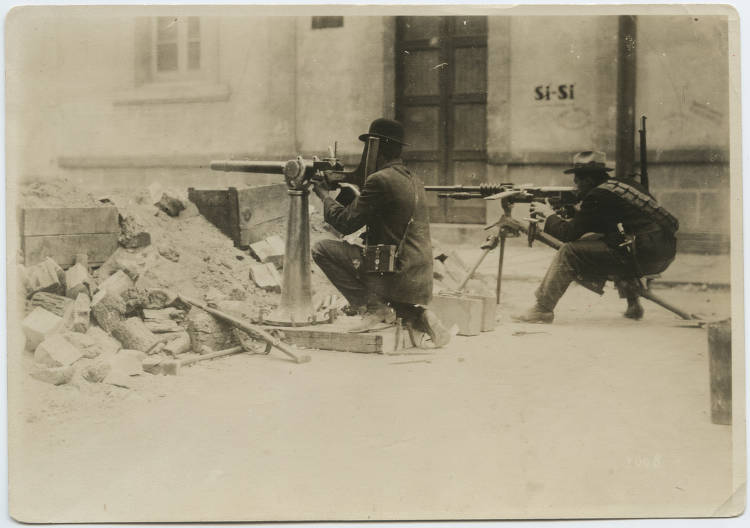 Title: Revolutionists, during action Creator: Mexico View Co. Date: February 1913 Part Of: border troops and the Mexican Revolution Place: Mexico City (Mexico D.F.), Mexico Physical Description: 1 photographic print: gelatin silver; 11.5 x 16.5 cm. File: ag1982_0015_020r_revolutionists_opt.jpg Rights: Please cite DeGolyer Library, Southern Methodist University when using this file. A high-resolution version of this file may be obtained for a fee. For details see the web page. For other information, . For more information, and to view the image in high resolution View the Mexico